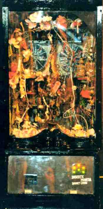 Shrine to Nstra. Snra. de las Bombillas. ( Our Lady of the Light-bulbs )